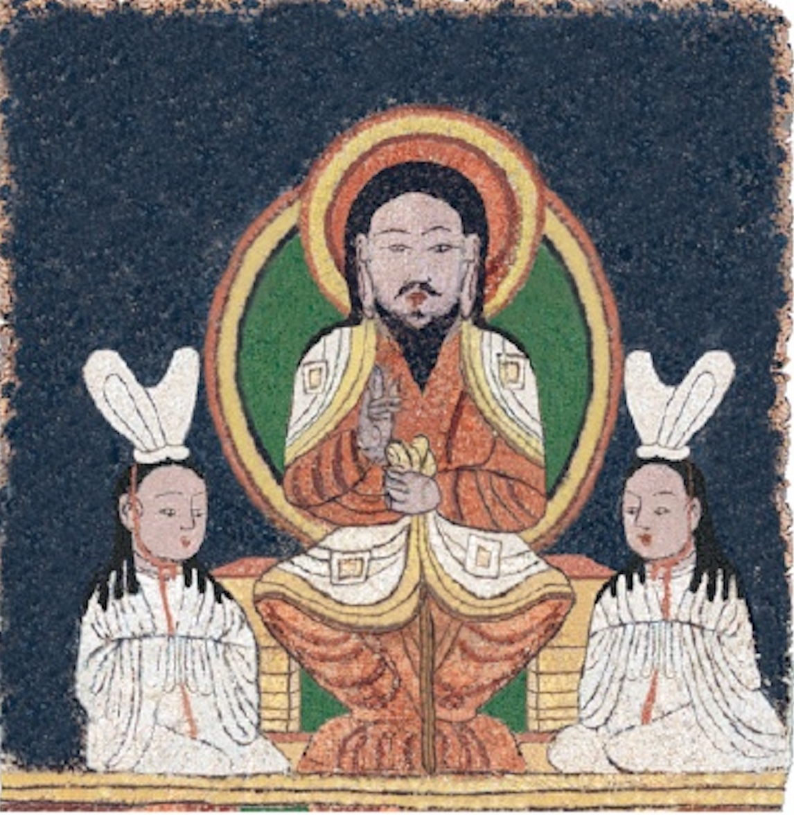 Icon of Jesus: digital reconstruction of the enthroned Jesus image on a Manichaean temple banner from ca. 10th-century Kocho.